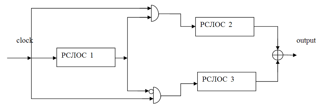 Clock Register